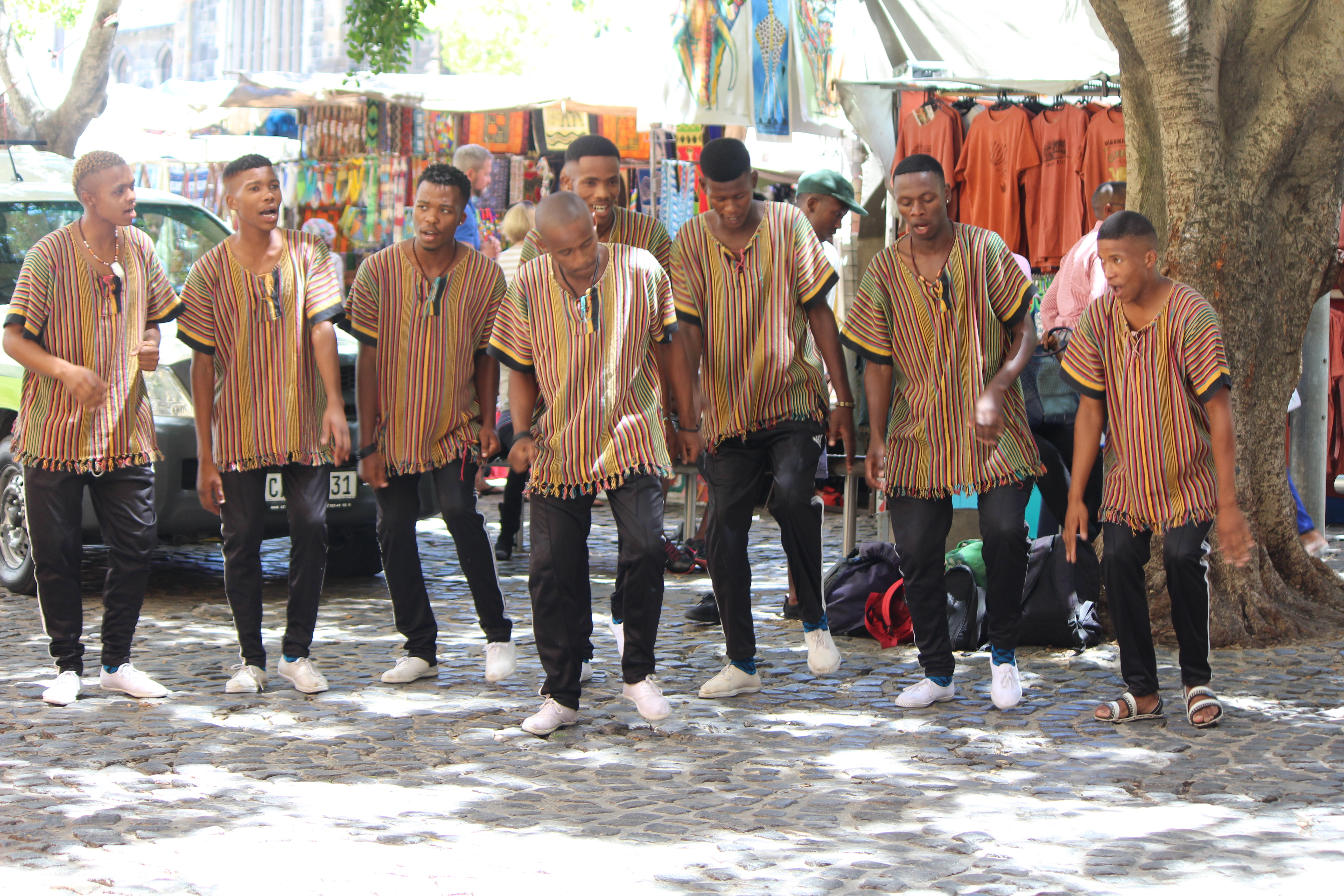 Group of young A Capella singers performing on a street market in Cape Town This is an image from South Africa